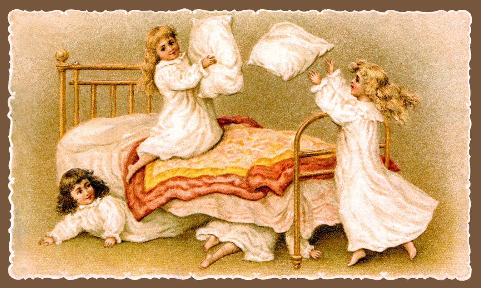 Austrian postcard, showing playing children